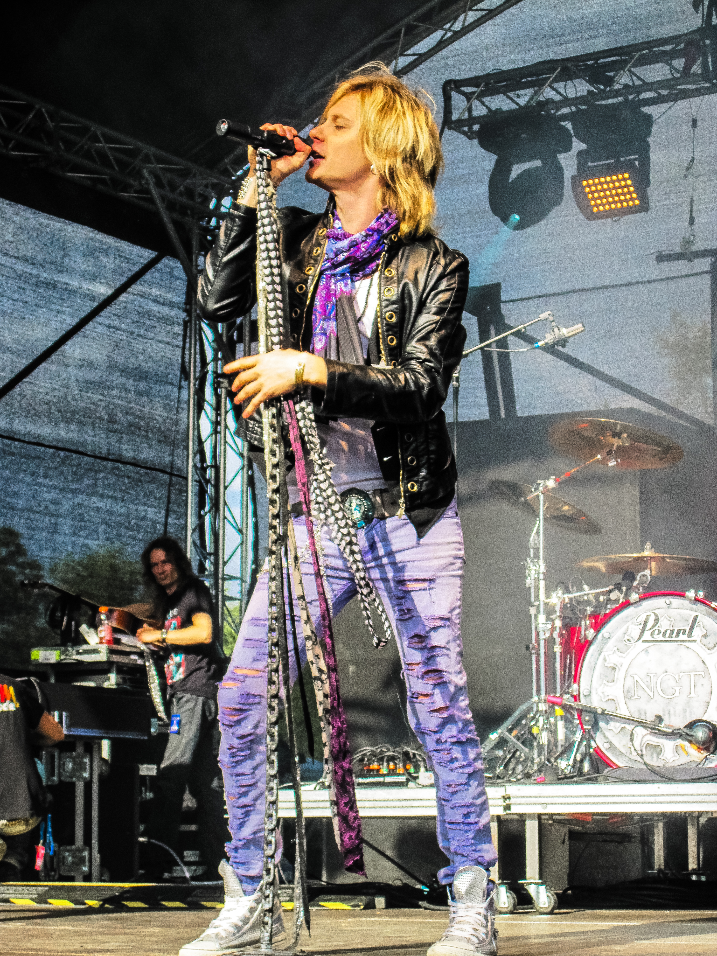 Negative performing at Räikkärock on July 25, 2009